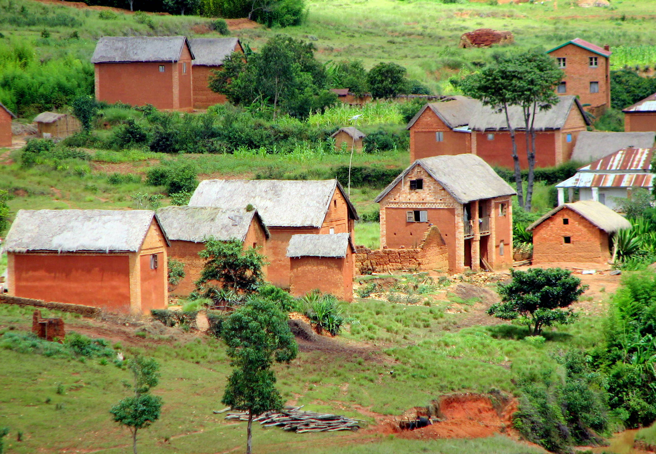 Houses in a village, Hautes Terres, Madagascar